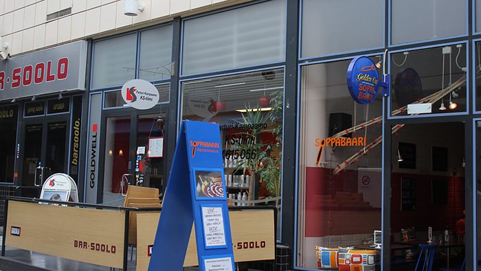 Inside of Väinönkeskus